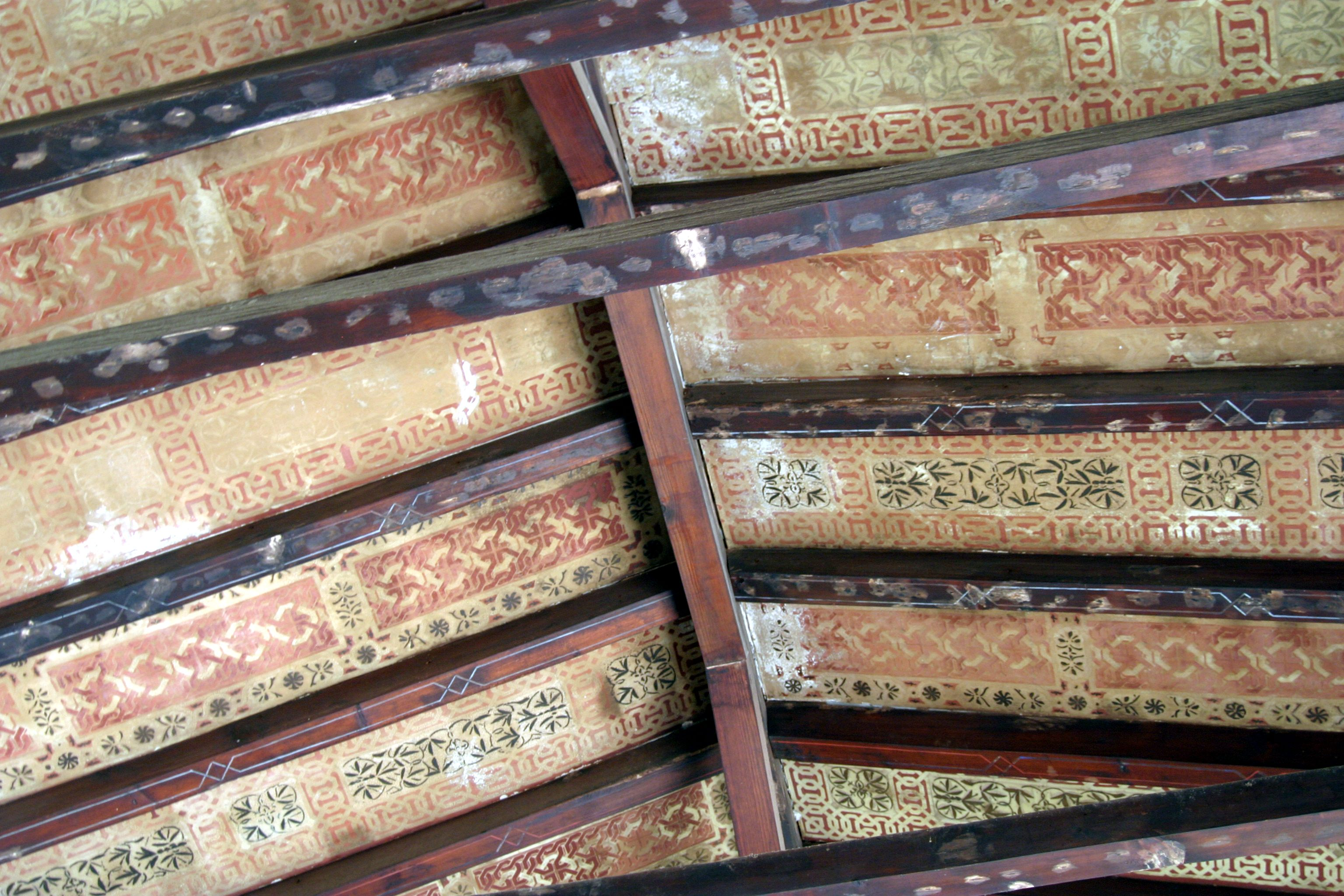 Alcazaba of Malaga, Spain